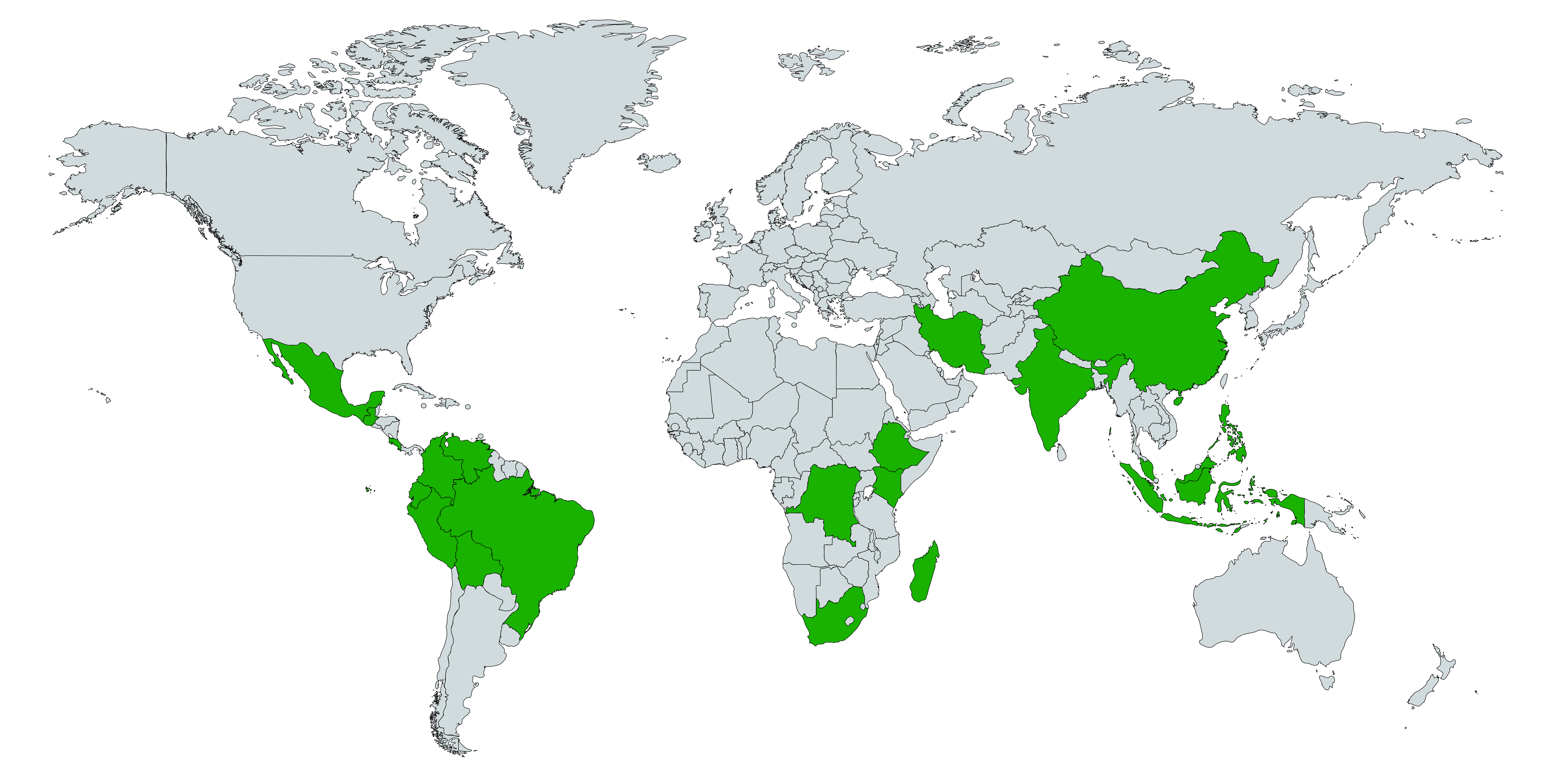 Map showing member states of the Like-Minded Megadiverse Countries organisation, according to data from here.